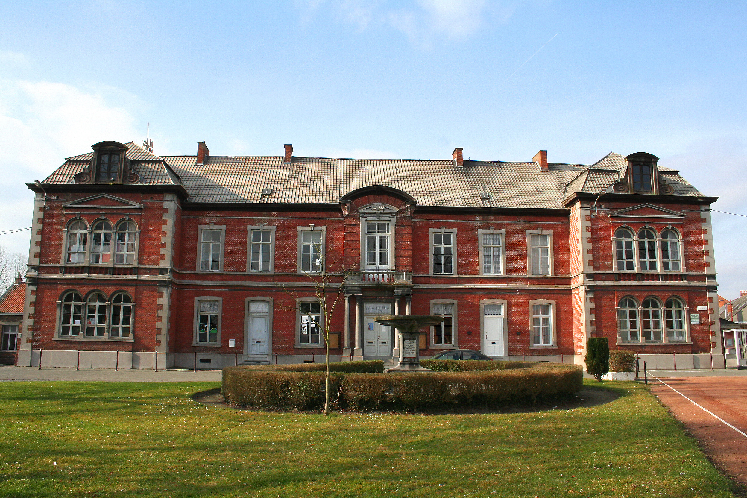 Ville-Pommerœul (Belgium), place de Ville - The former town hall.